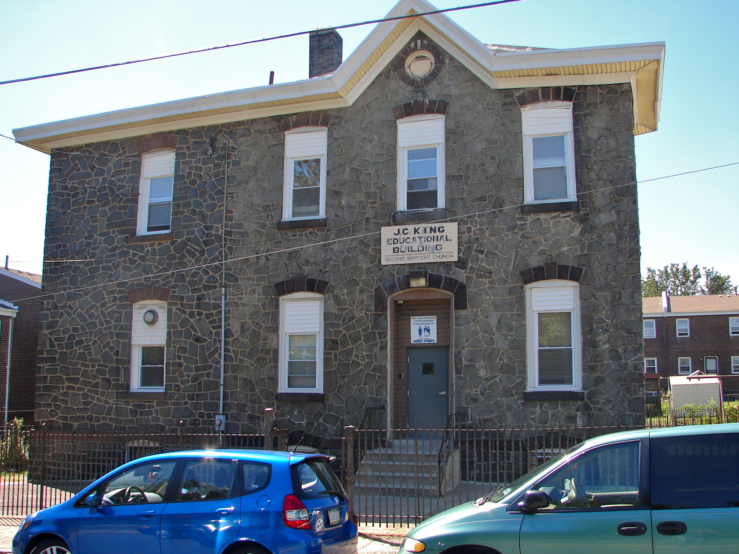 David Wilmot School in Philadelphia on the NRHP since November 18, 1988. At 1734 Meadow Street in the NE Philly neighborhood of Frankford.